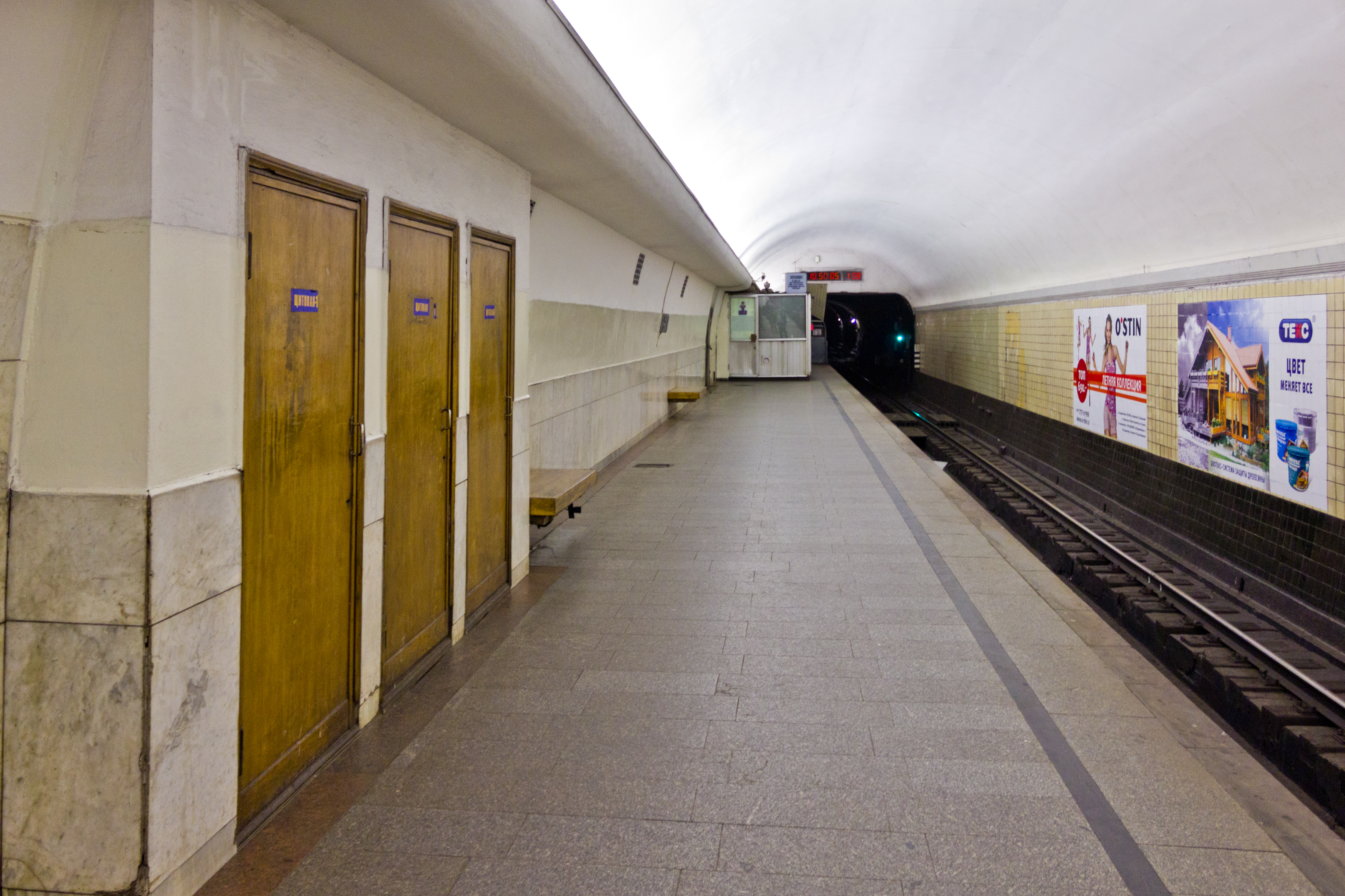 Oktyabrskaya-Radialnaya Moscow Metro station.